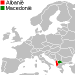 Locatormap for Albania and Macedonia.